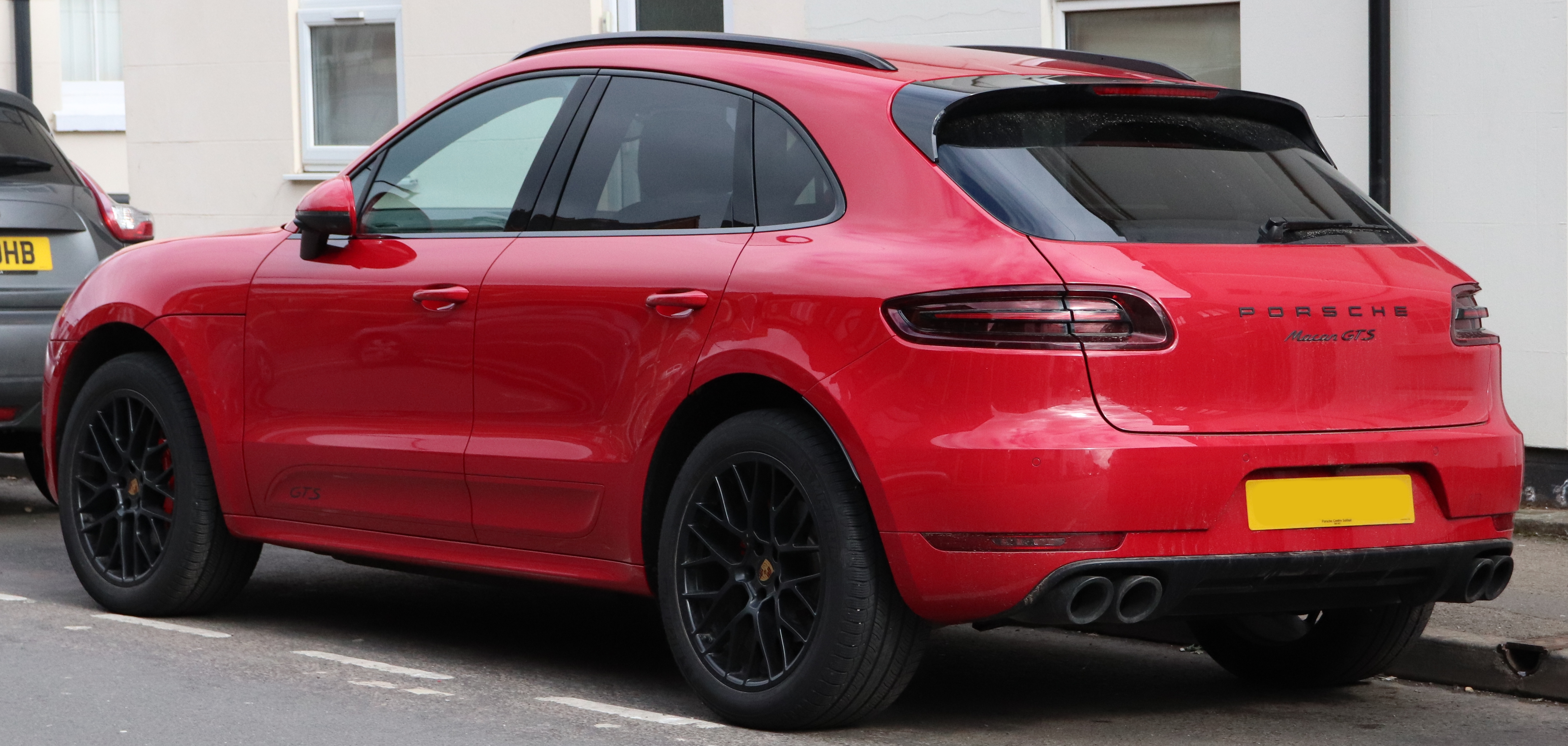 2016 Porsche Macan GTS S-A 3.0 Rear Taken in Leamington Spa